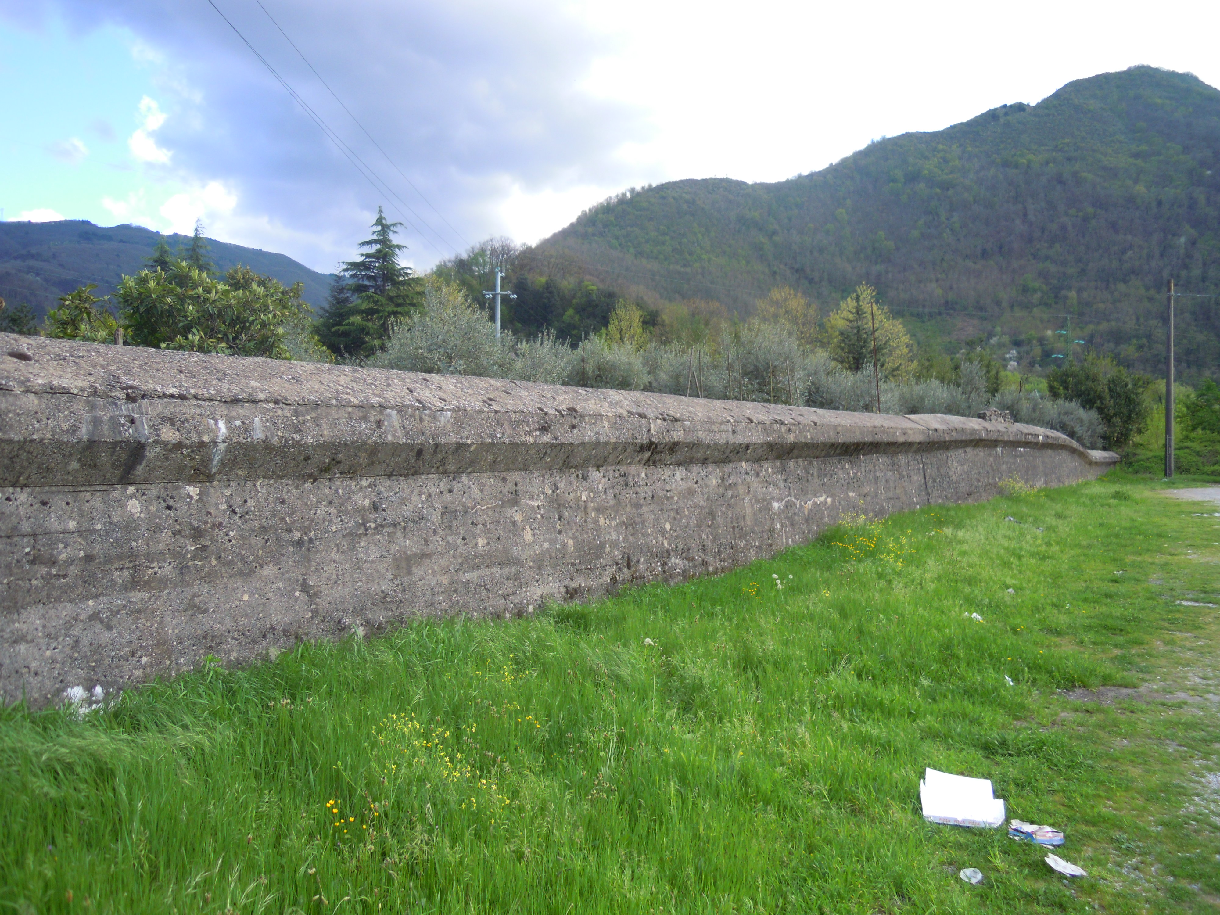 Muro anticarro a Borgo a Mozzano